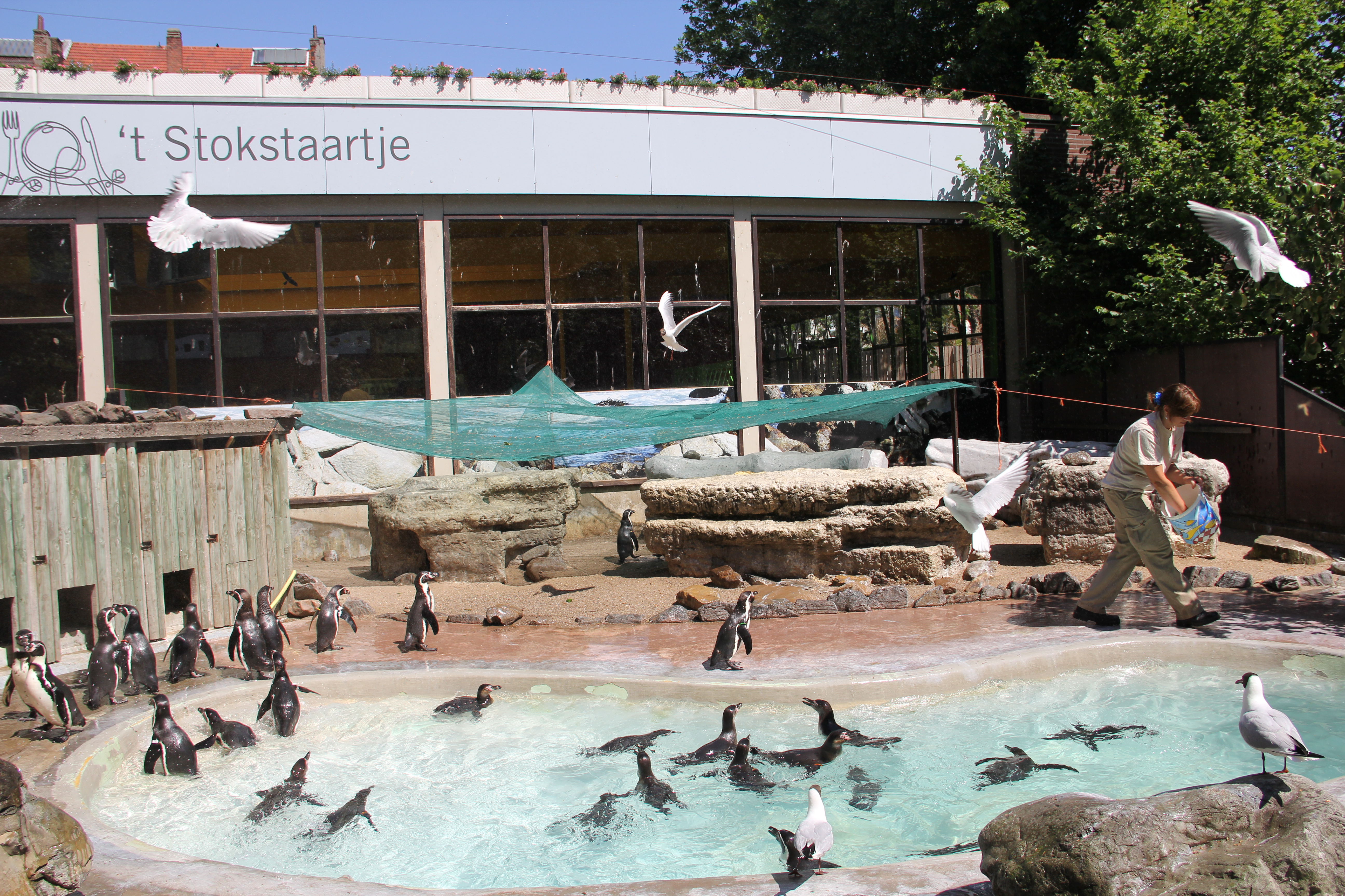 Penguins feeding in the Antwerp ZOO